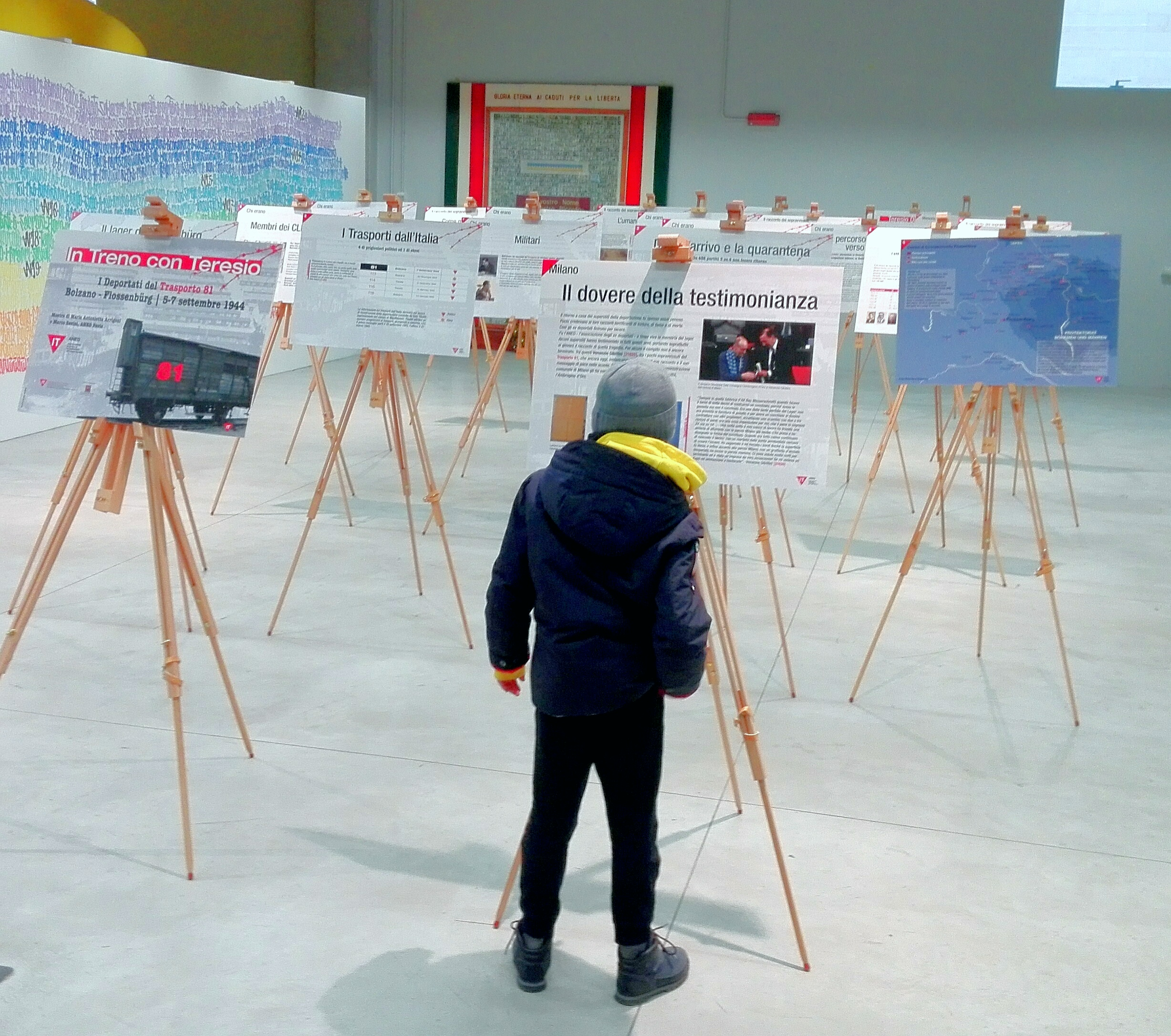 The Duty of the testimony: a boy reads the boards of the ANED exhibition in memory of the Nazi deportations, held in the "house of memory" in Milan